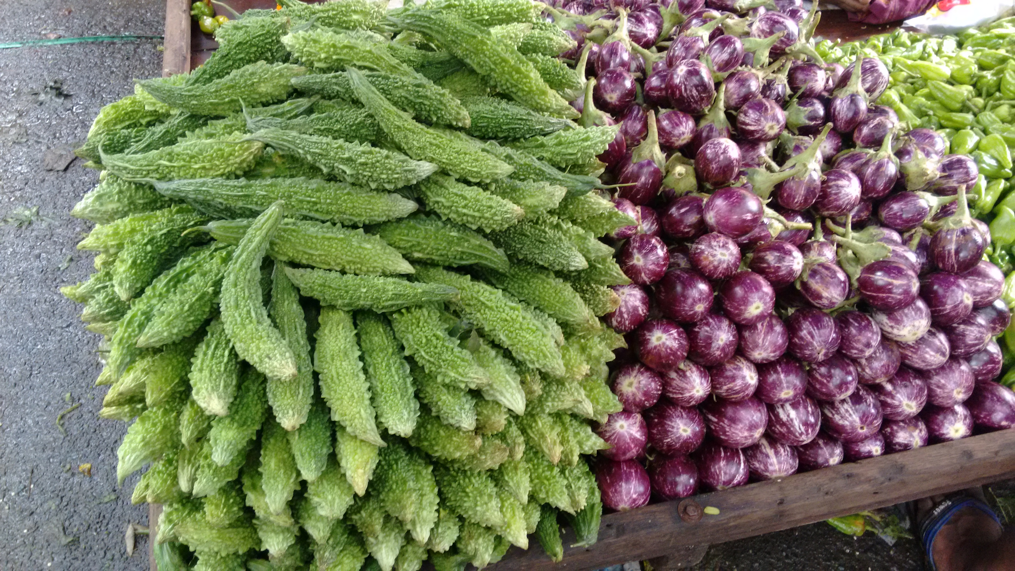 Vegetable market